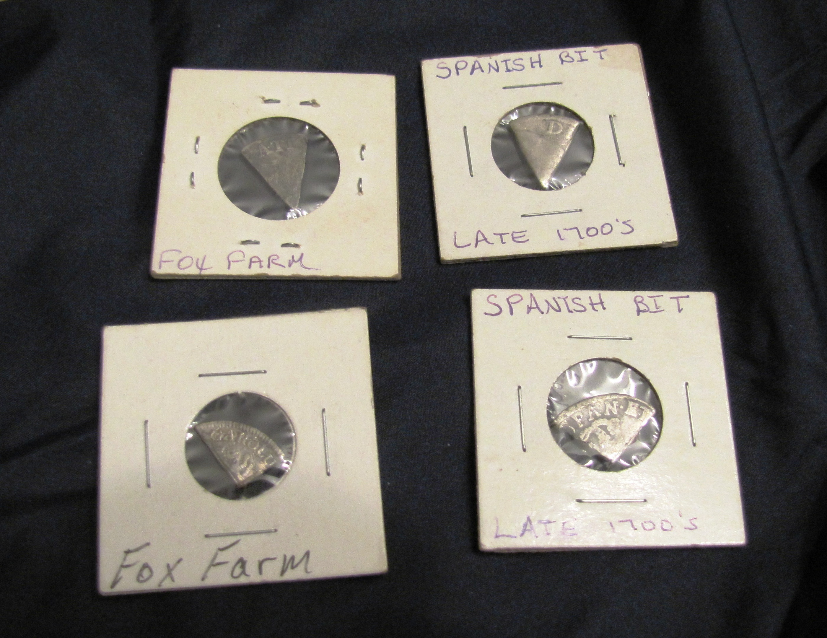 Late-18th century Spanish bits found on the Fox Farm (which contains the Fort Blount-Williamsburg site) in Jackson County, Tennessee, USA. Collection of Gene Smith, Jackson County, Tenn.